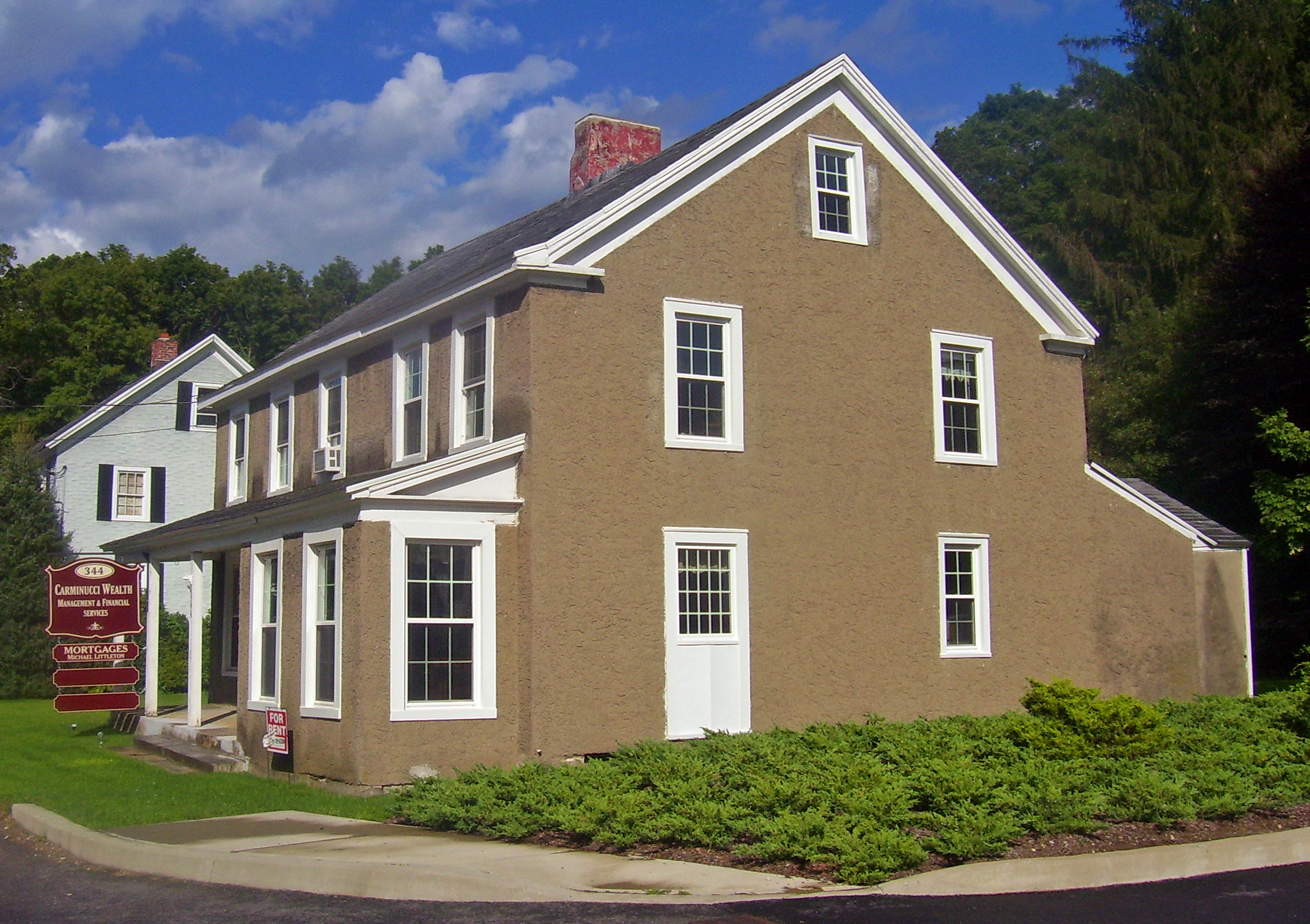 Historic houses in downtown Somers, NY, USA